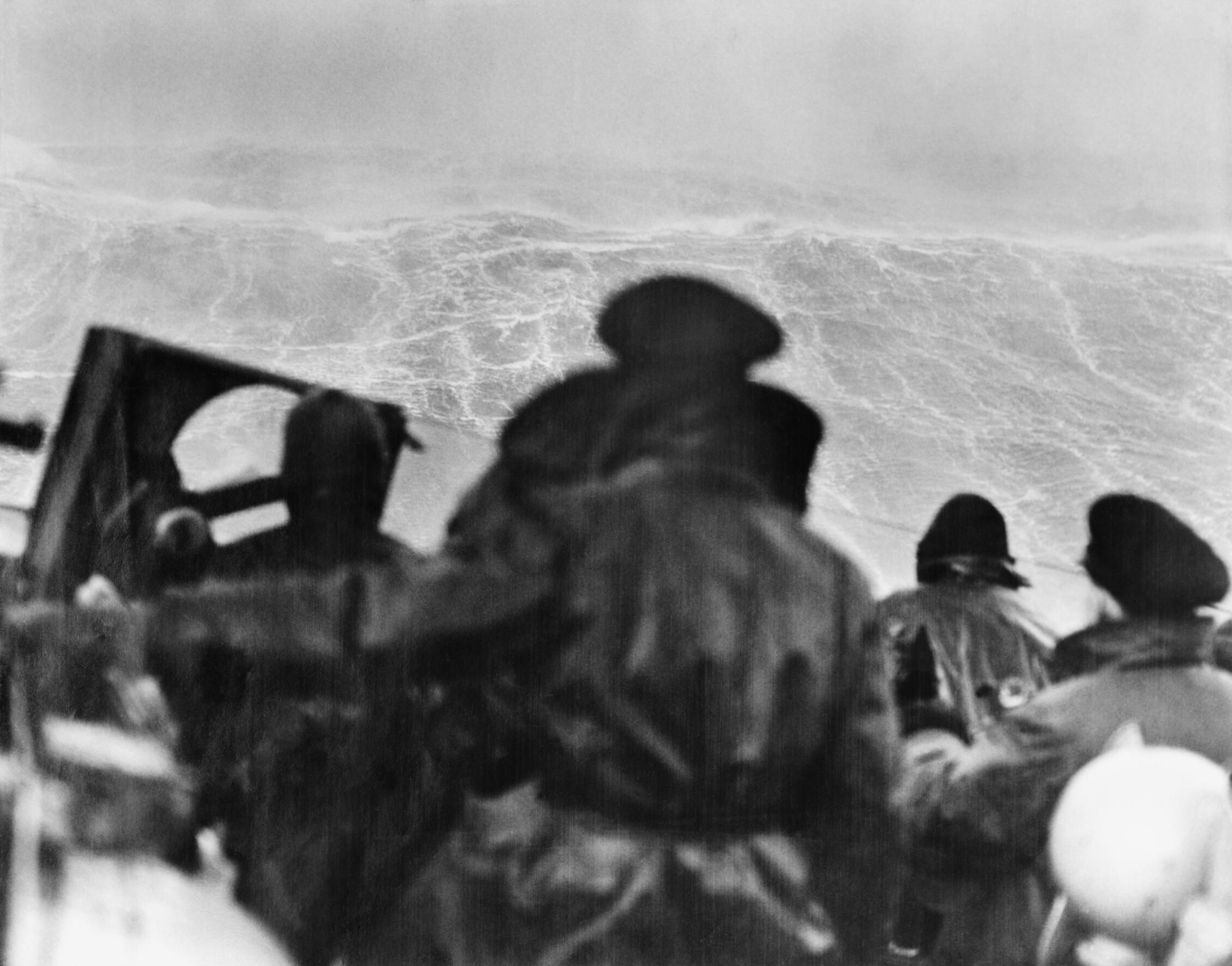 The Arctic Convoys The view from the bridge of the Royal Navy cruiser HMS SHEFFIELD as she battles heavy seas while escorting convoy JW 53 to Russia, February 1943. The ship suffered severe structural damage during three days of storms and had to return to port for repairs.